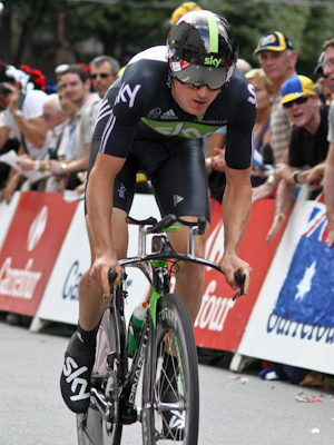 Geraint Thomas